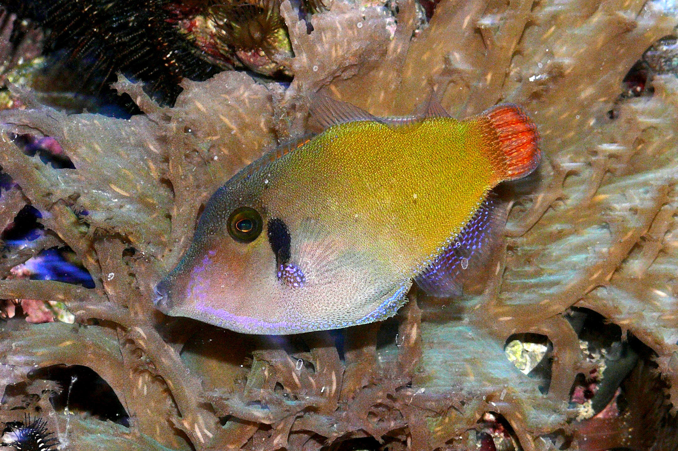 Pervagor janthinosoma